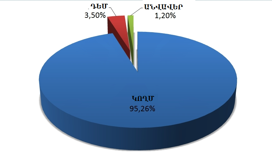 Results of the Macedonian independence referendum, 1991